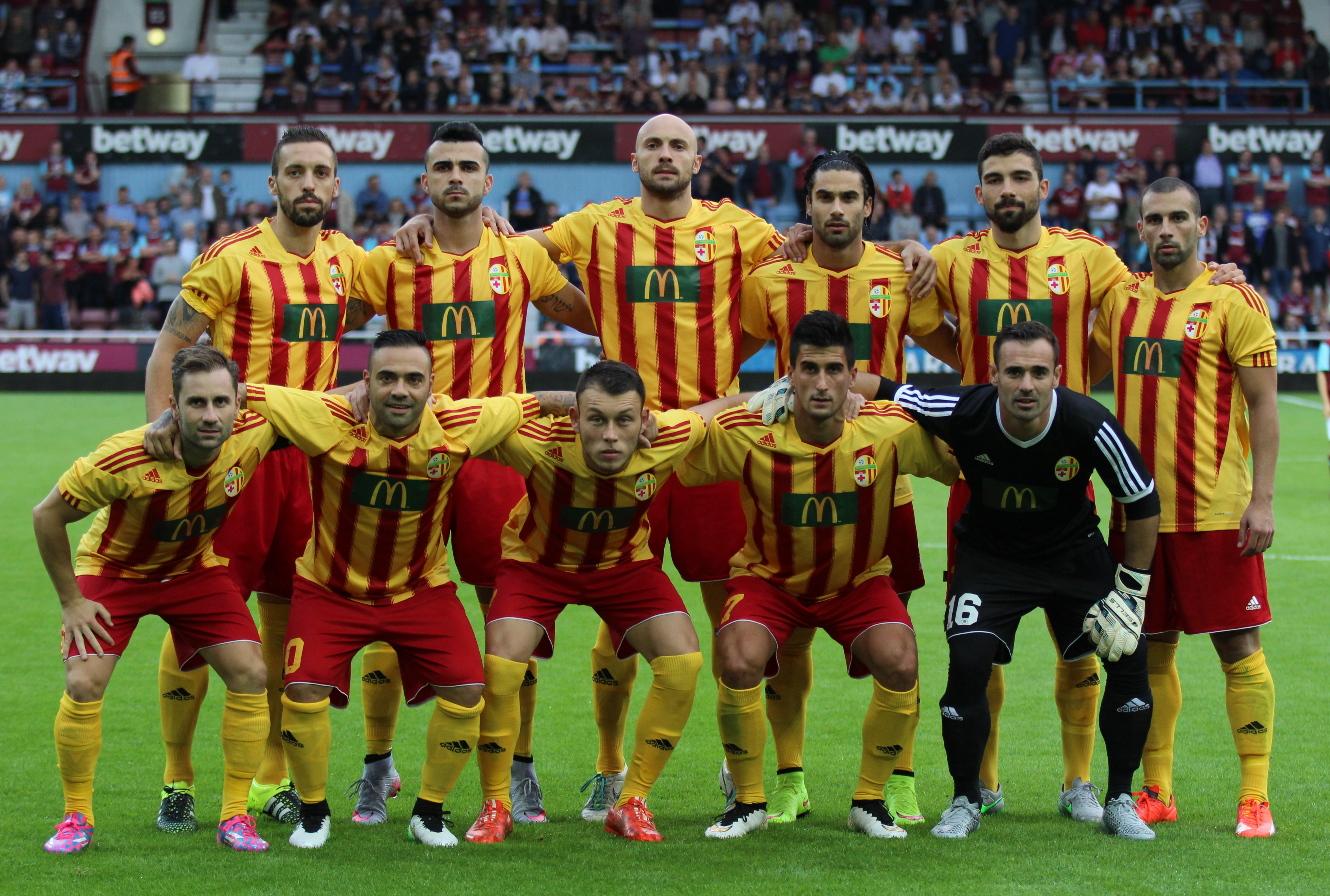 Birkirkara line up before the game against West Ham.